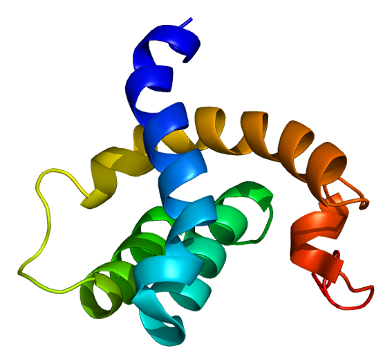 Structure of the CBFA2T3 protein. Based on PyMOL rendering of PDB 2h7b.